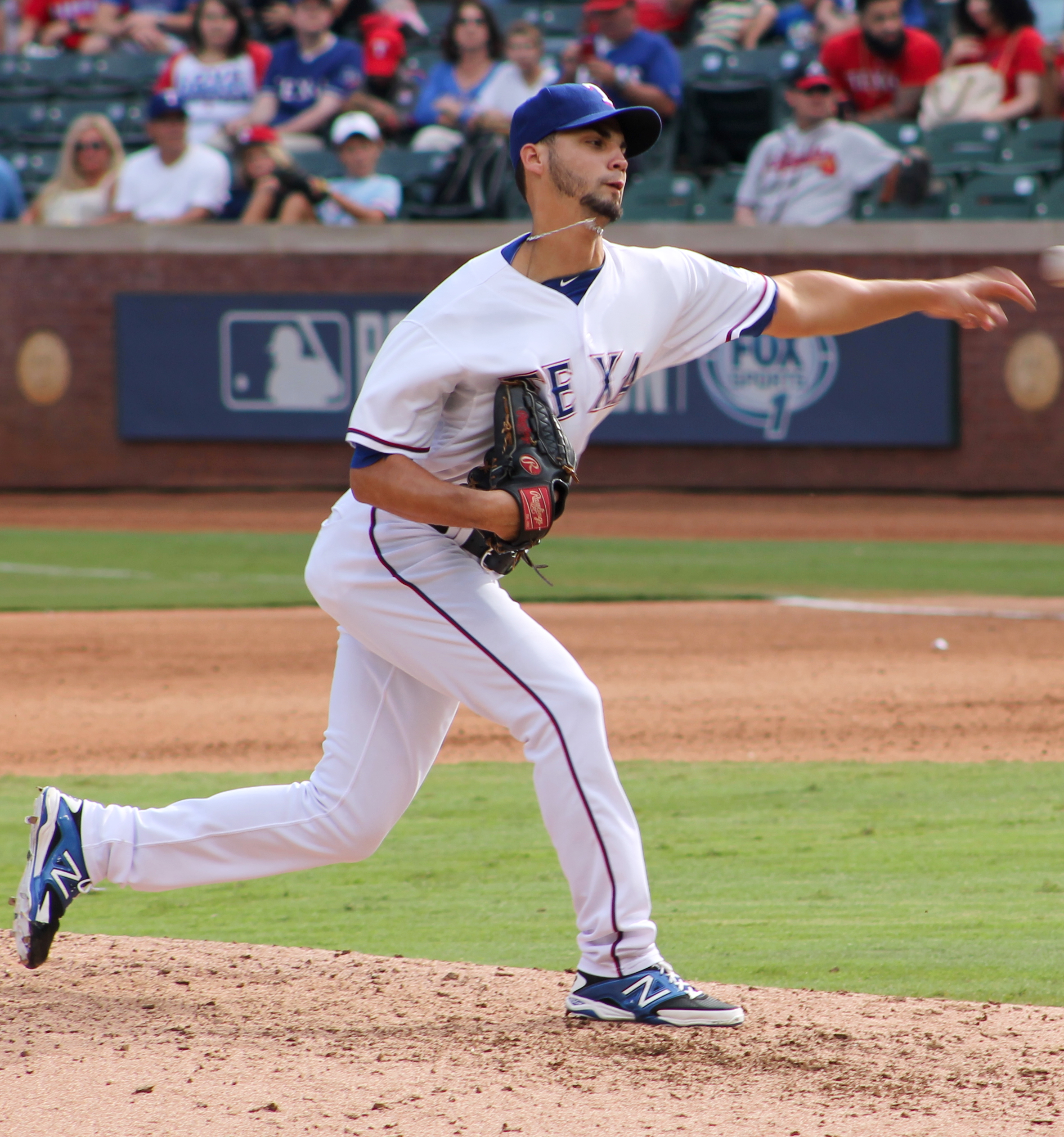 Professional baseball player Alex Claudio pitches for the Texas Rangers in September 2014.